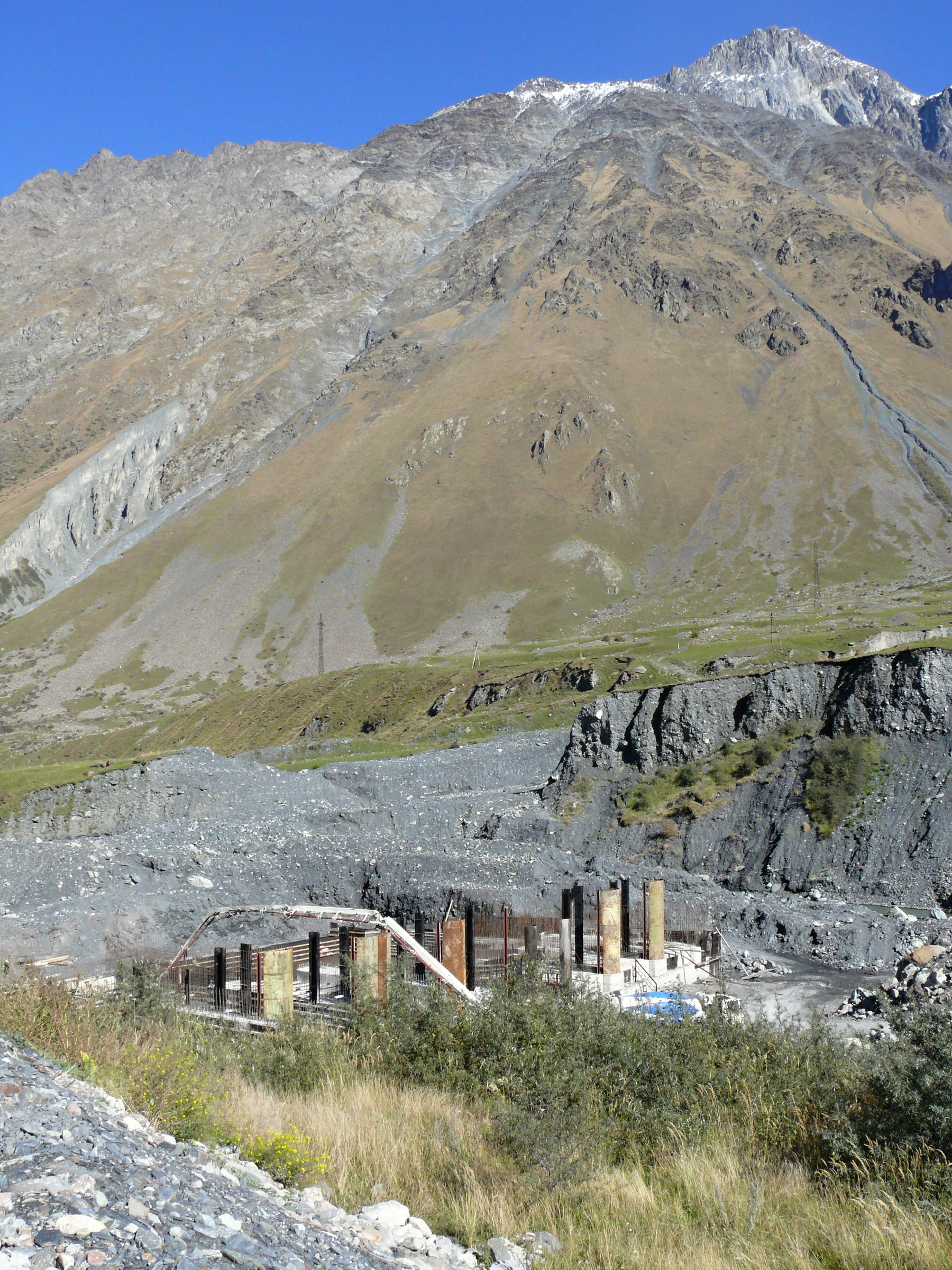 Dariali HPP near Stepantsminda 2014.